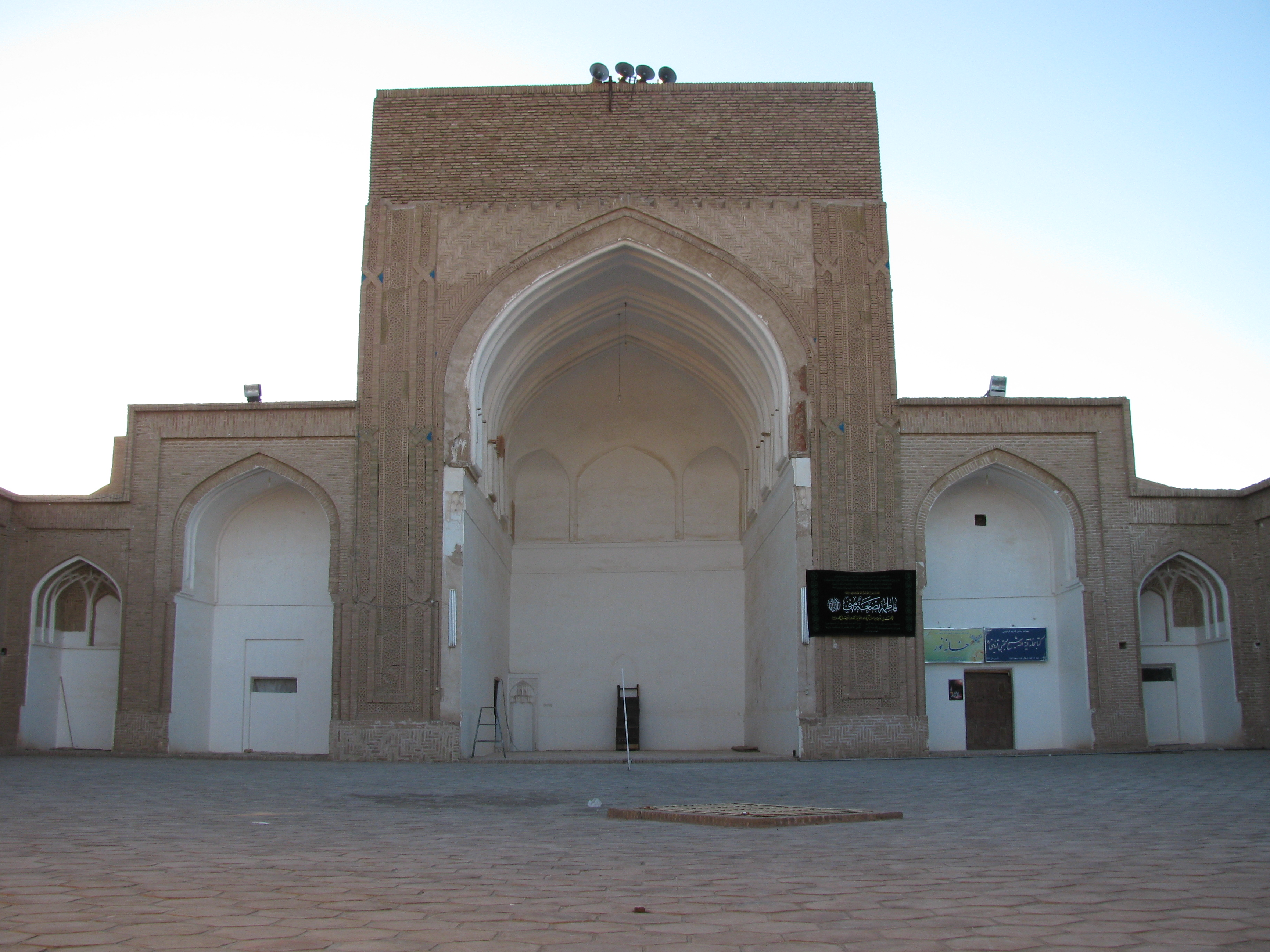 Ferdows Congregation Mosque, belonged to Seljuk dynasty.